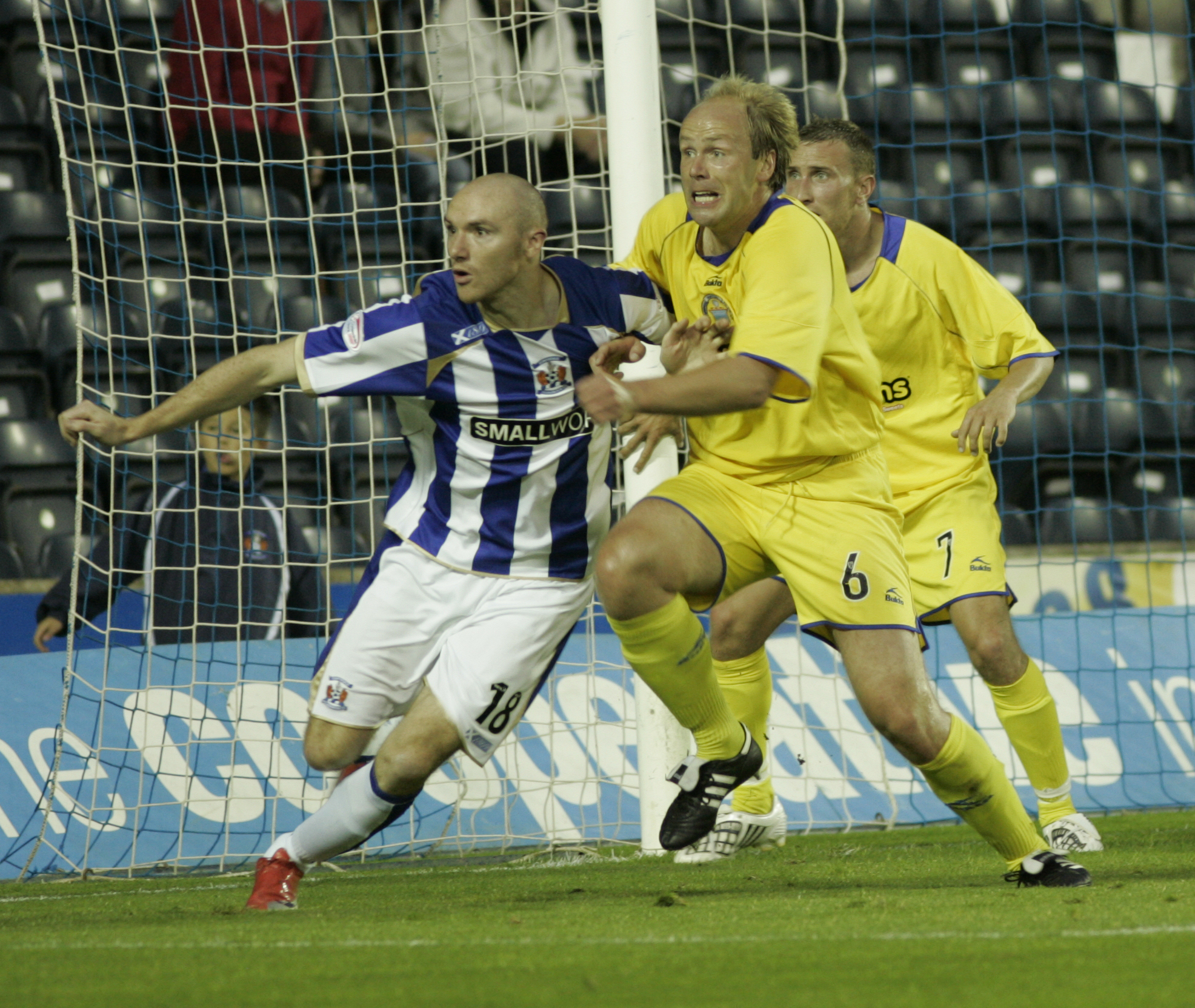 Kilmarnock vs Morton - CIS Cup 2nd Round.